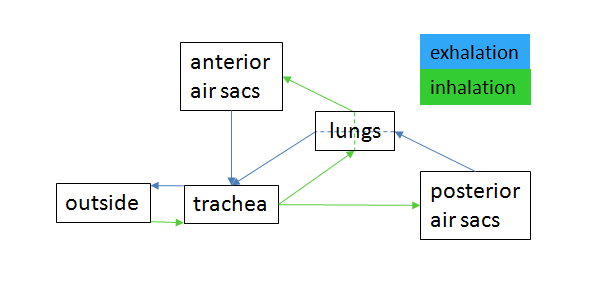 This is a schematic diagram showing the path of airflow through a bird's respiratory system during inhalation and exhalation.